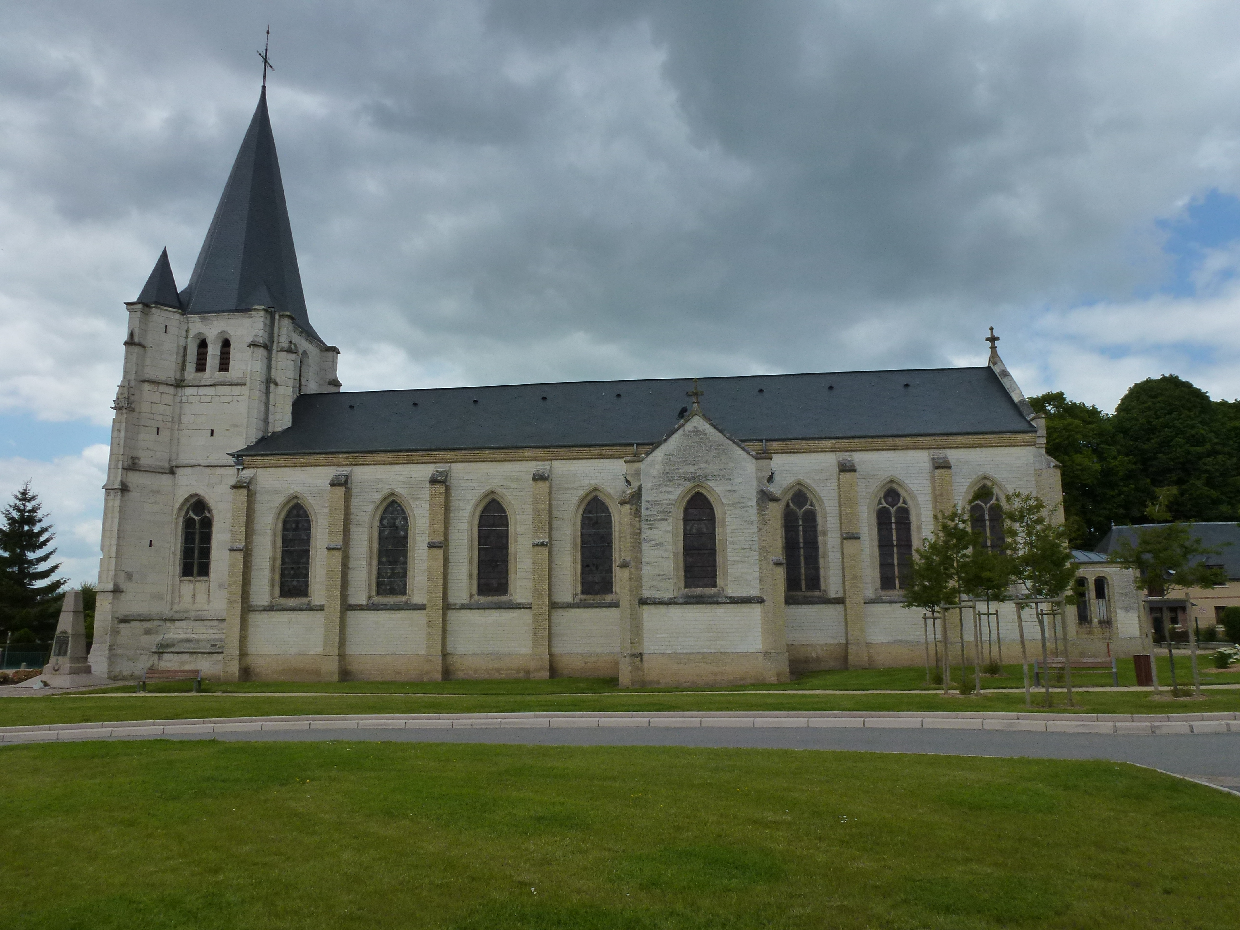 Amfreville-la-Campagne (Eure, Fr) église, vue latérale